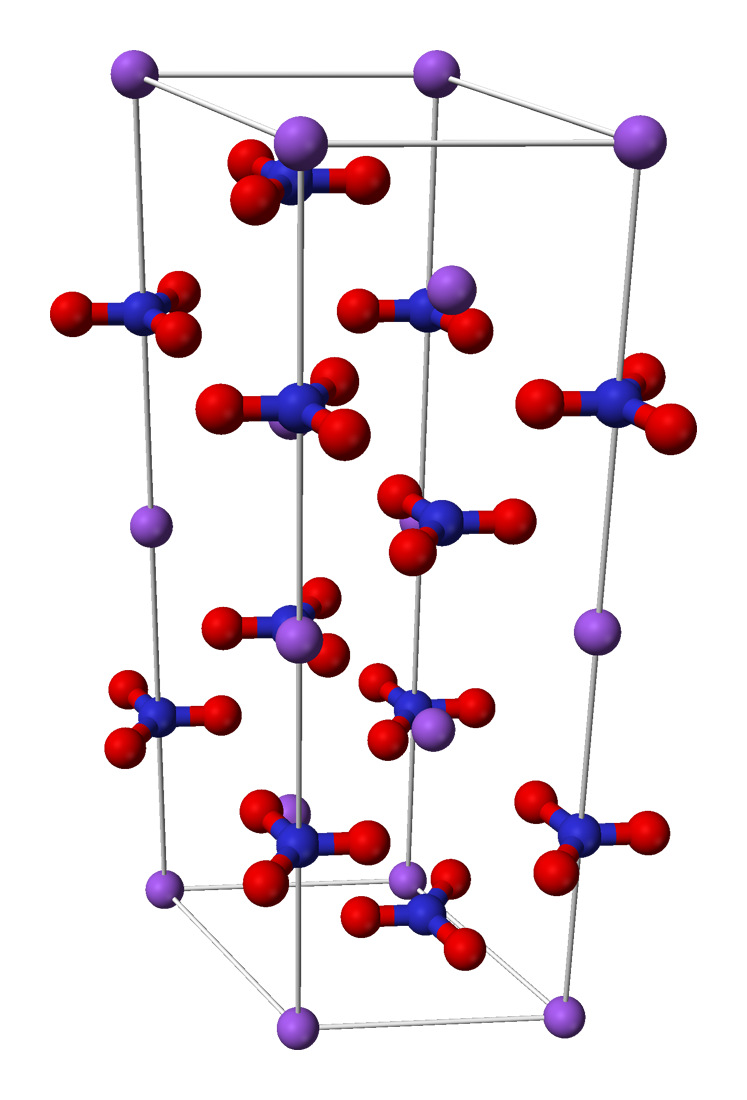 Ball-and-stick model of the unit cell of sodium nitrate, NaNO3